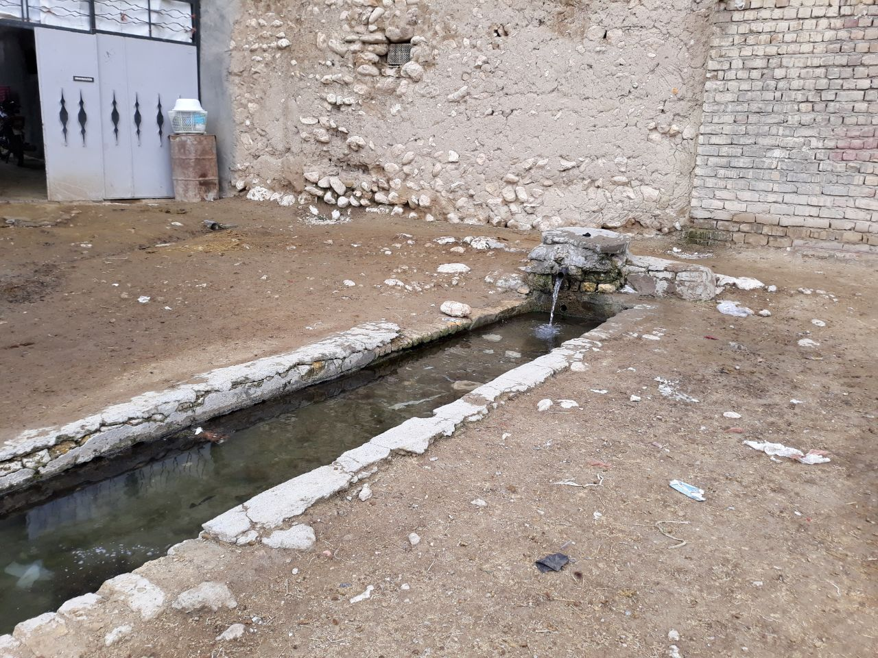 Vezandan fountain